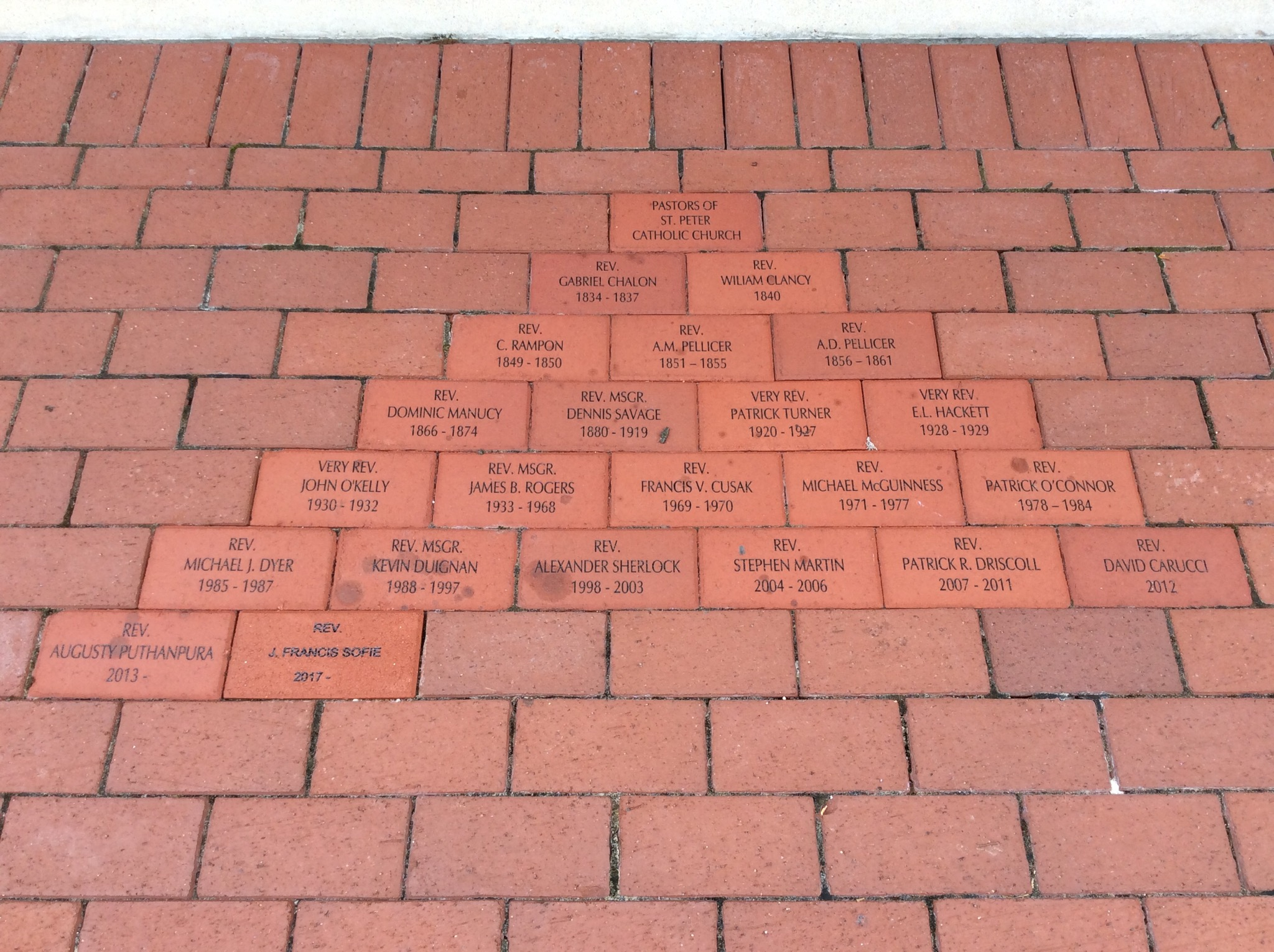 bricks engraved with the record of priests that have been at Saint Peter Catholic Church (Montgomery, AL) -- includes names and years